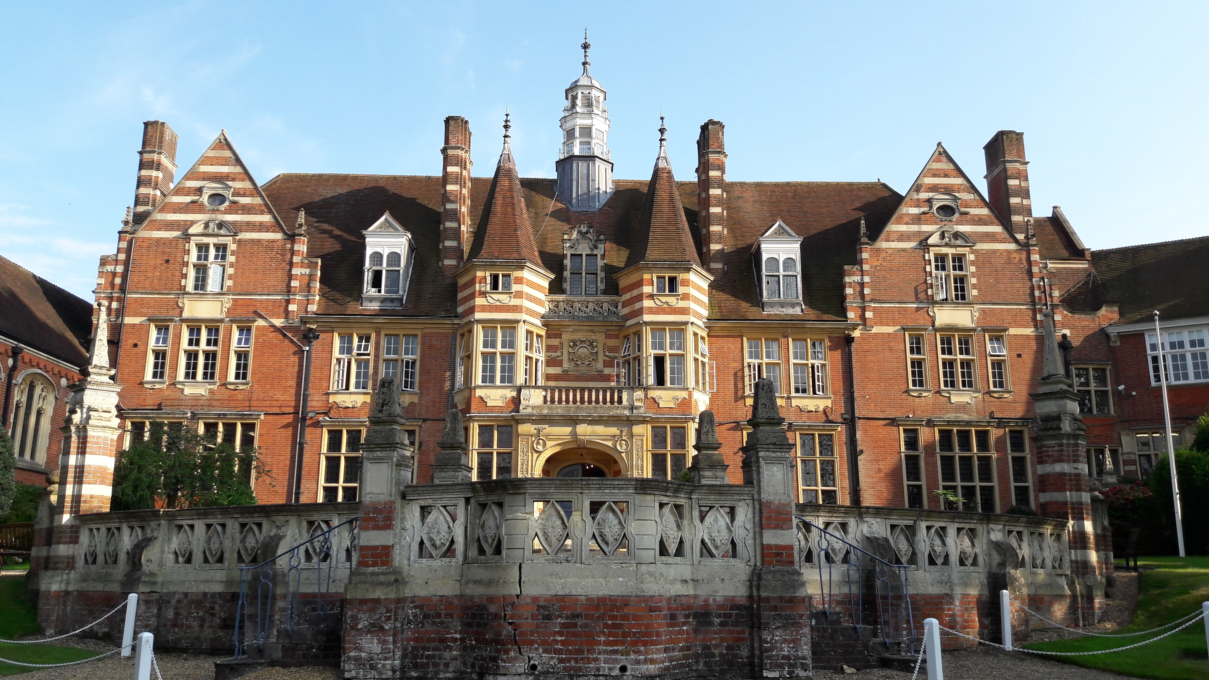 Roman Catholic Jesuit Preparatory School near Englefield Green, Surrey, and Old Windsor, Berkshire. Built in 1888 and designed by J. F. Bentley.